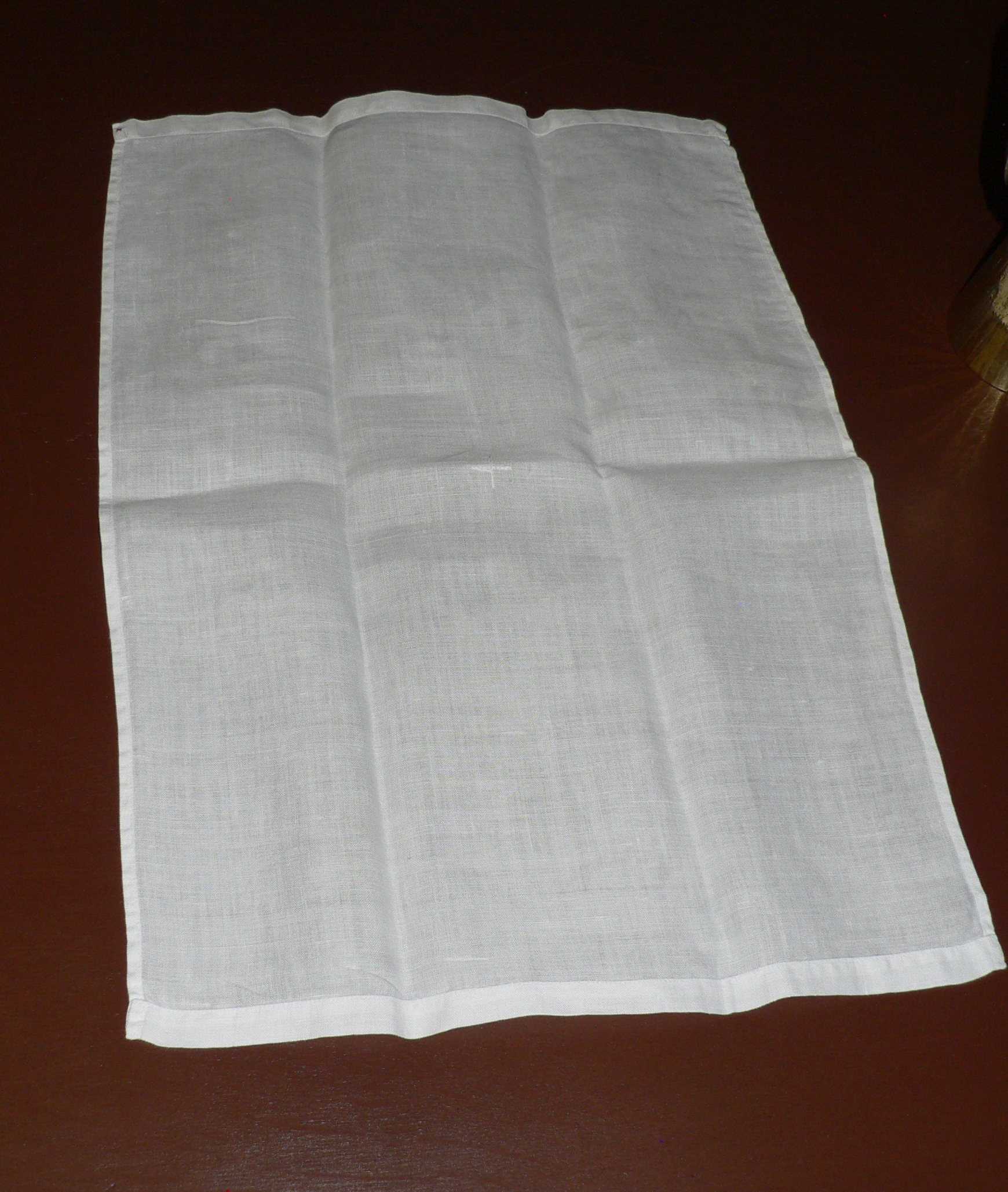 An opened manuterge.